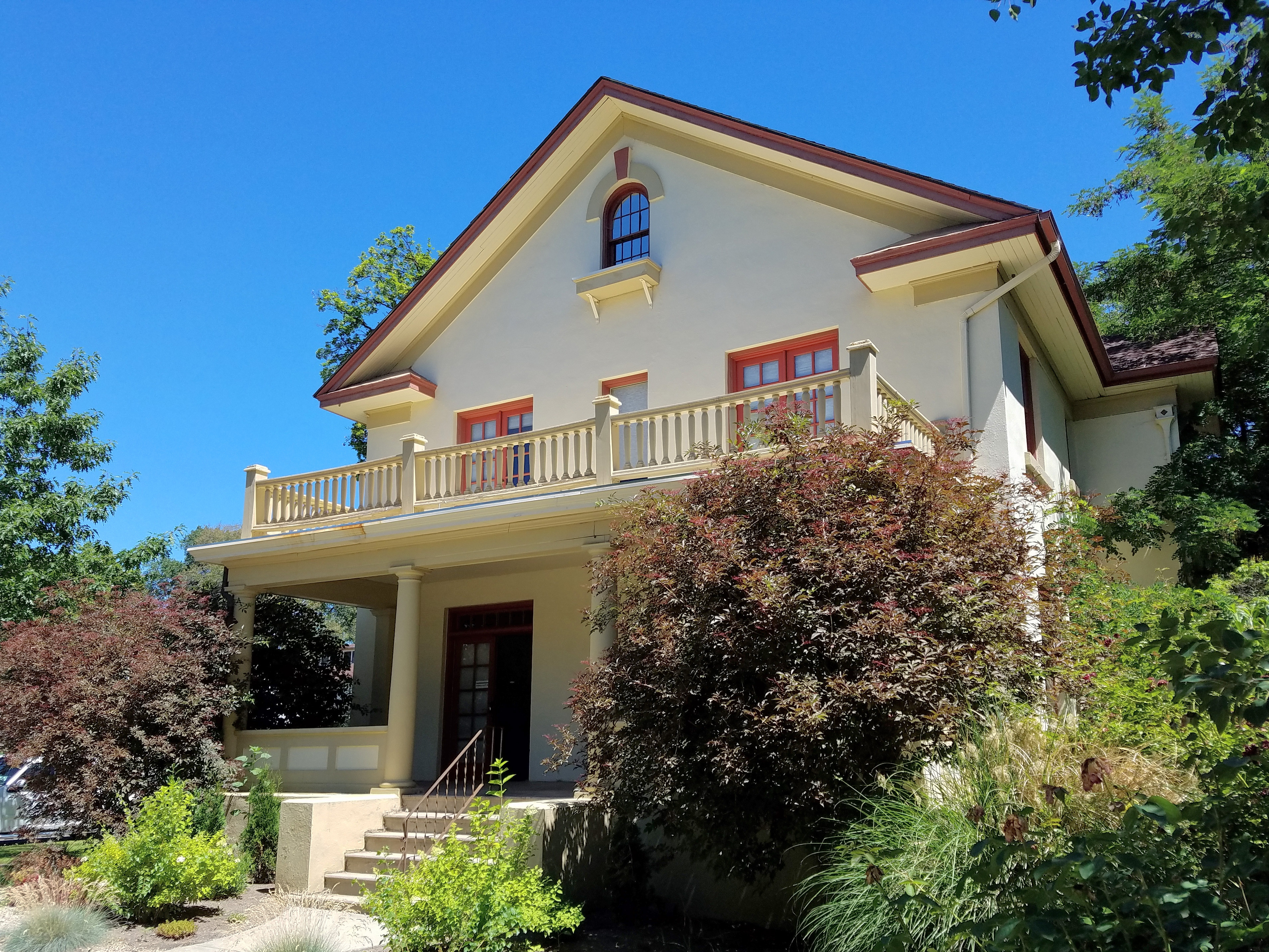 The Adolph Schreiber House (1915) in Boise, Idaho, was designed by Tourtellotte and Hummel and is listed on the National Register of Historic Places.